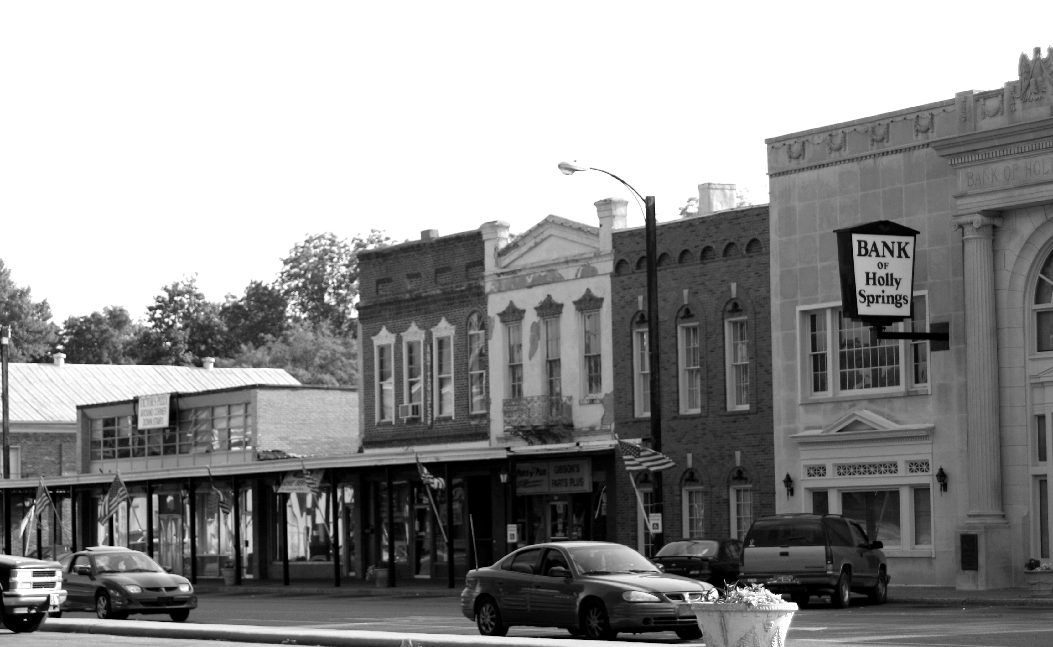 Downtown Holly Springs, Mississippi, United States